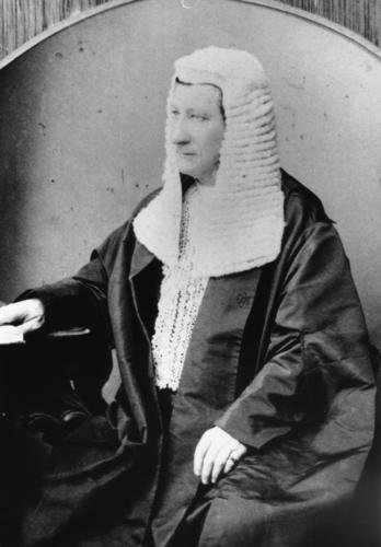 William Henry Groom was just thirteen when convicted of theft and sent to Australia in 1849. Granted a conditional pardon he eventually made his way to Toowoomba, Queensland. Elected as Toowoomba's first mayor in 1861, he served continuously in government until 1901. Groom was the only transported convict to be elected to Federal Parliament. In Queensland he was known as the Father of the House and carried the title to the Federal Parliament in Melbourne. He died while attending the first session of Parliament in Melbourne on August 8, 1901.